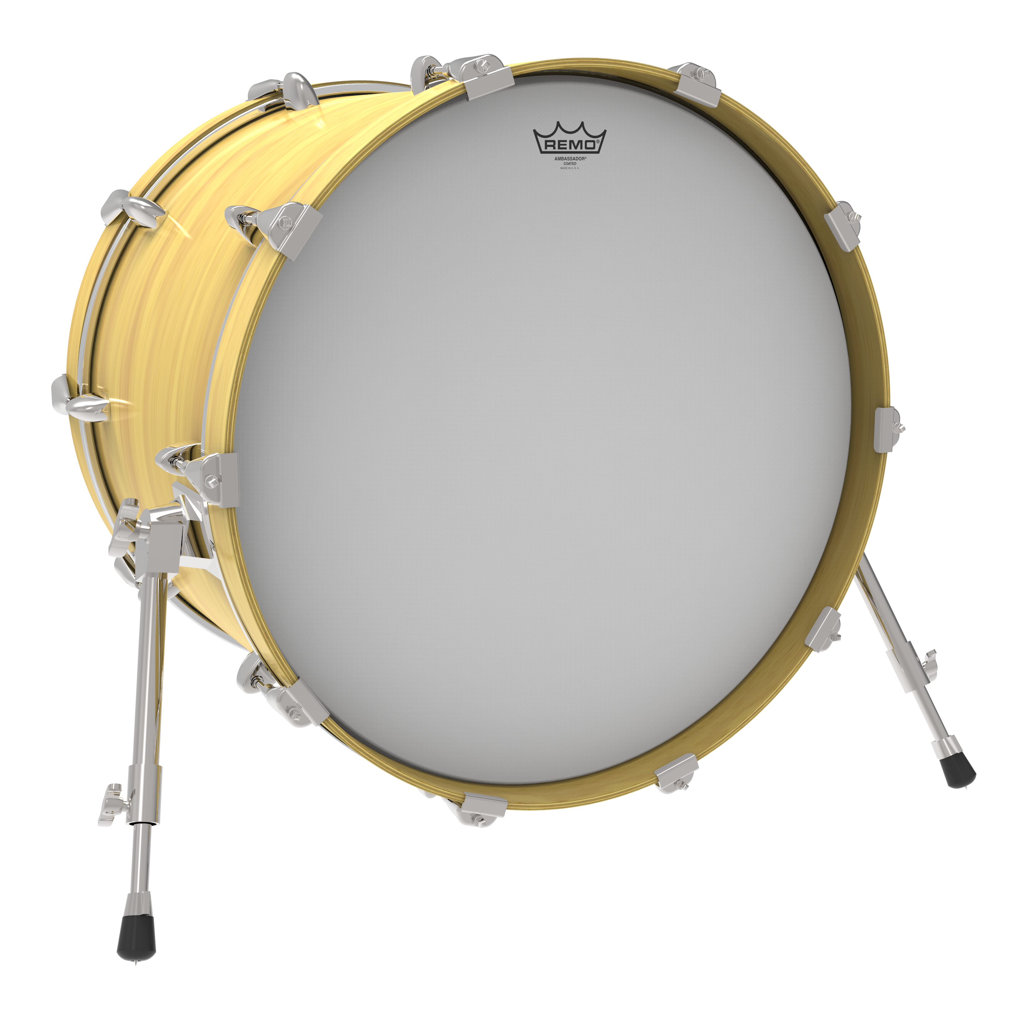 Drumhead with Coating, known as a Coated drumhead, fitted on a Bass drumset drum.